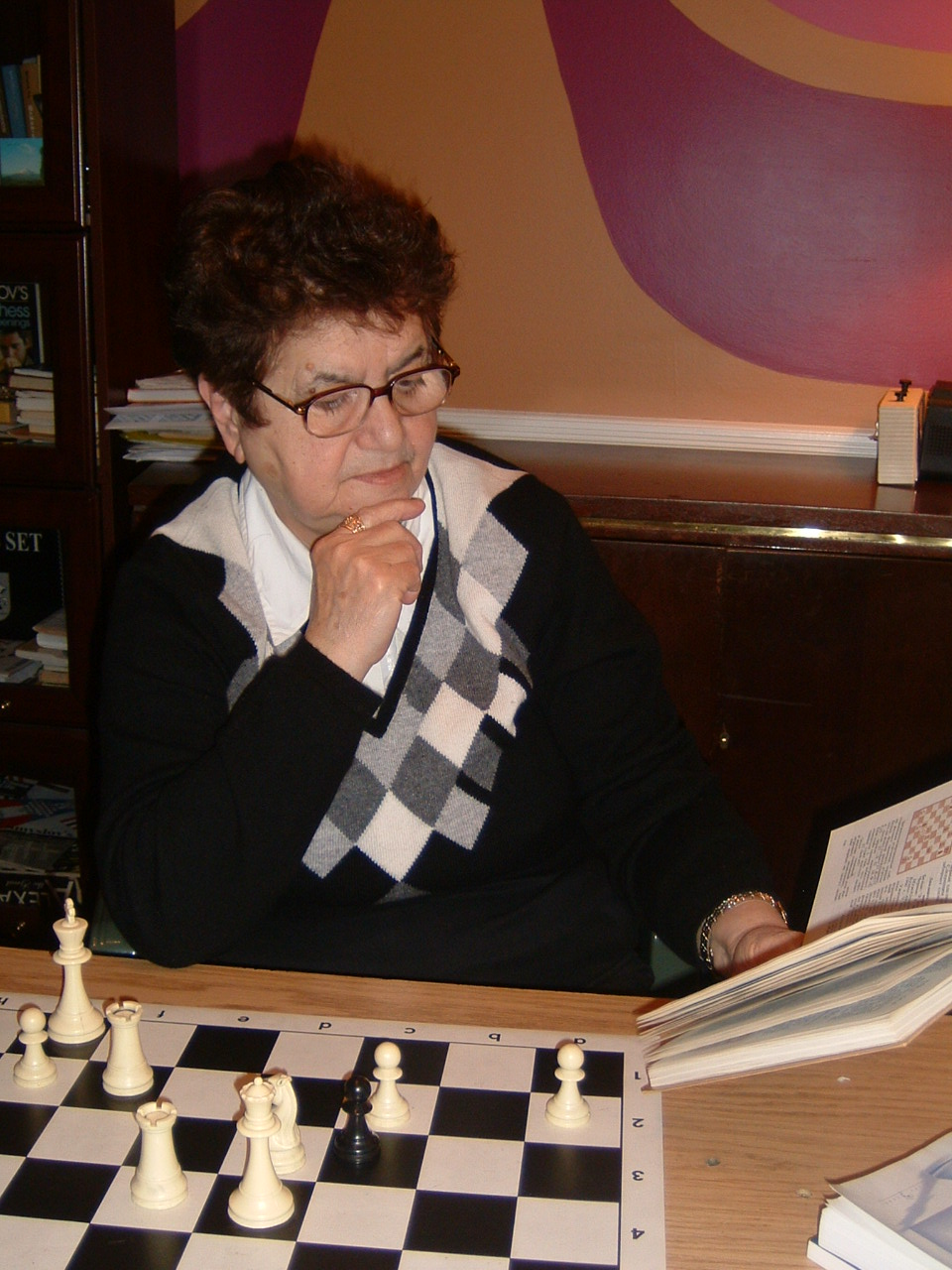 International Arbiter Nonna Karakashyan is getting ready for chess lesson (April, 2011)